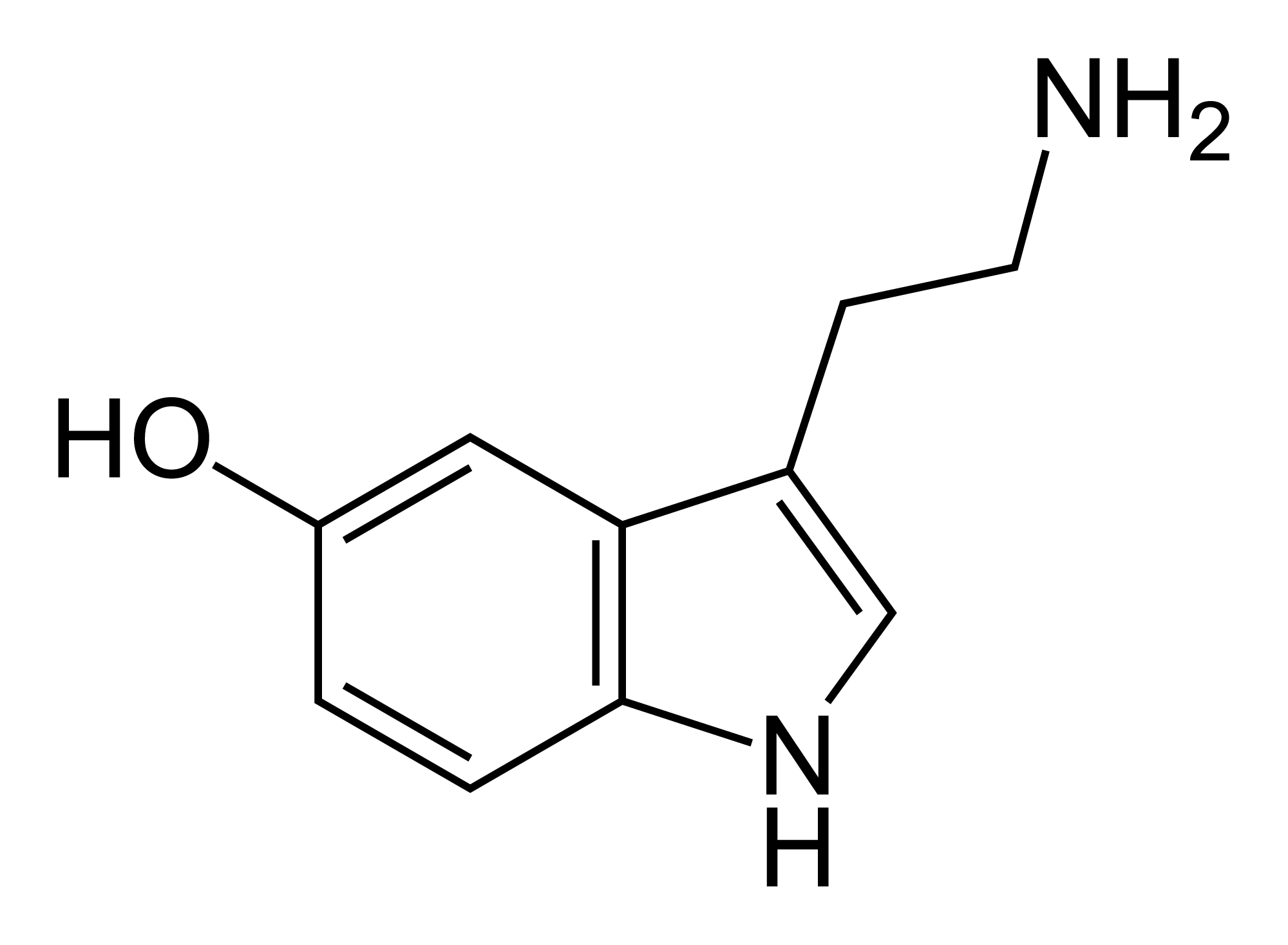 Skeletal formula of serotonin, C10H12N2O. Structure based on X-ray crystallographic determination from Acta Chem. Scand. (1978) 32a, 267–270. Structure drawn in ChemBioDraw Ultra 12.0.